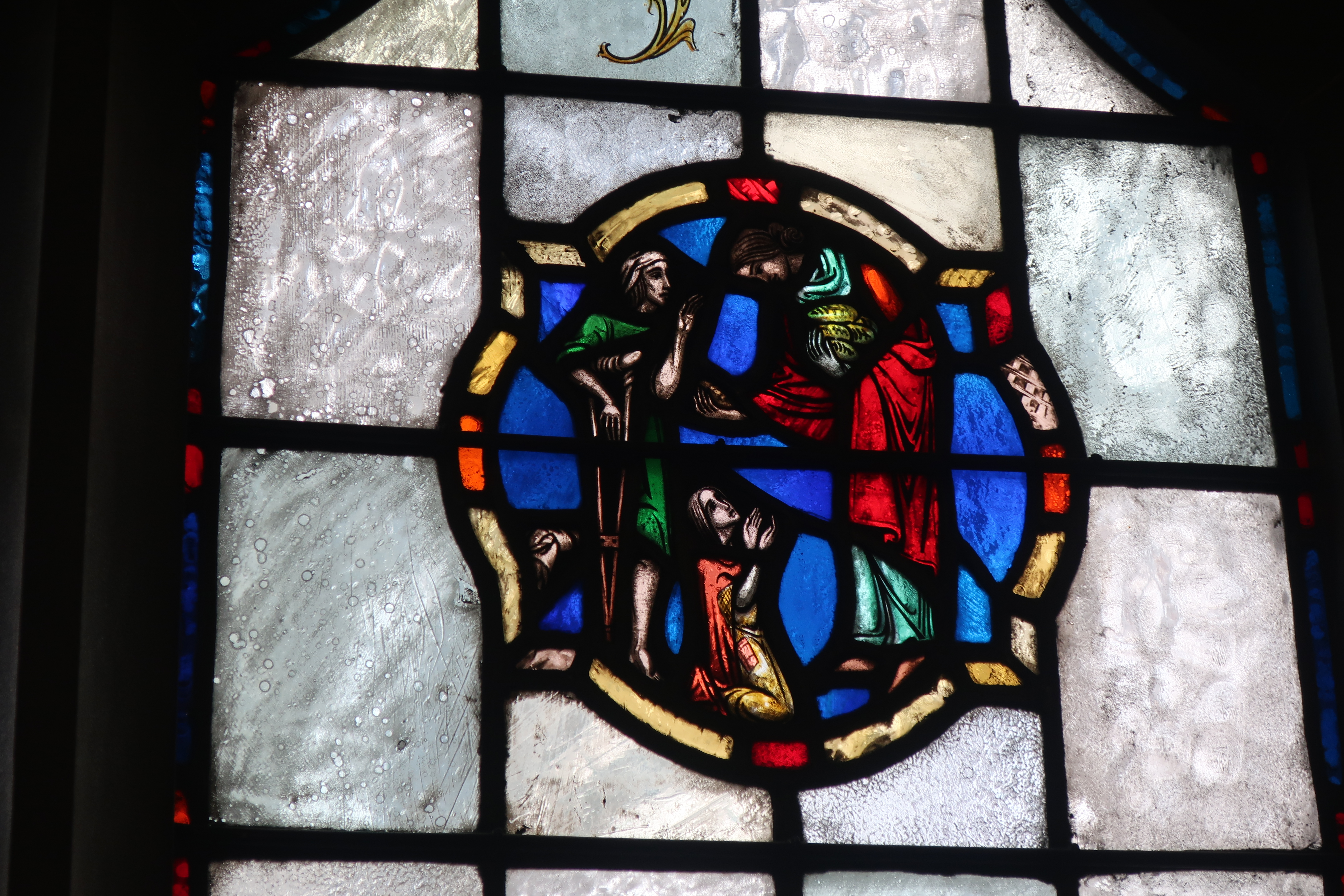 Charles Connick stained-glass window, UU Church of Lancaster, women's parlor, late 1920s